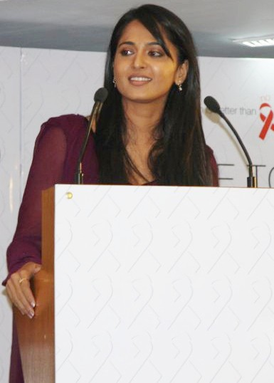 Anushka Shetty at the TeachAIDS launch press conference in Hyderabad, India